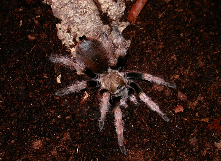 Aphonopelma hentzi